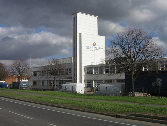 Allied Bakeries, Orpington Originally the Tip Top Bakery, this bakery in Cray Avenue was built in 1939 and was designed by Sir Alexander Gibb and Partners. It is now part of the Allied Bakeries division of Associated British Foods.